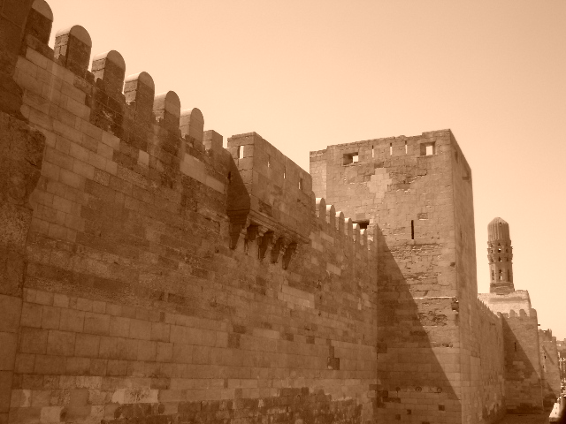 Taken Between Nasr Gate and Al-Futuh Gate These gates were originally built of brick by Gawhar El Sakaly, but they were rebuilt by Badr El Gamali of stone in 1085.